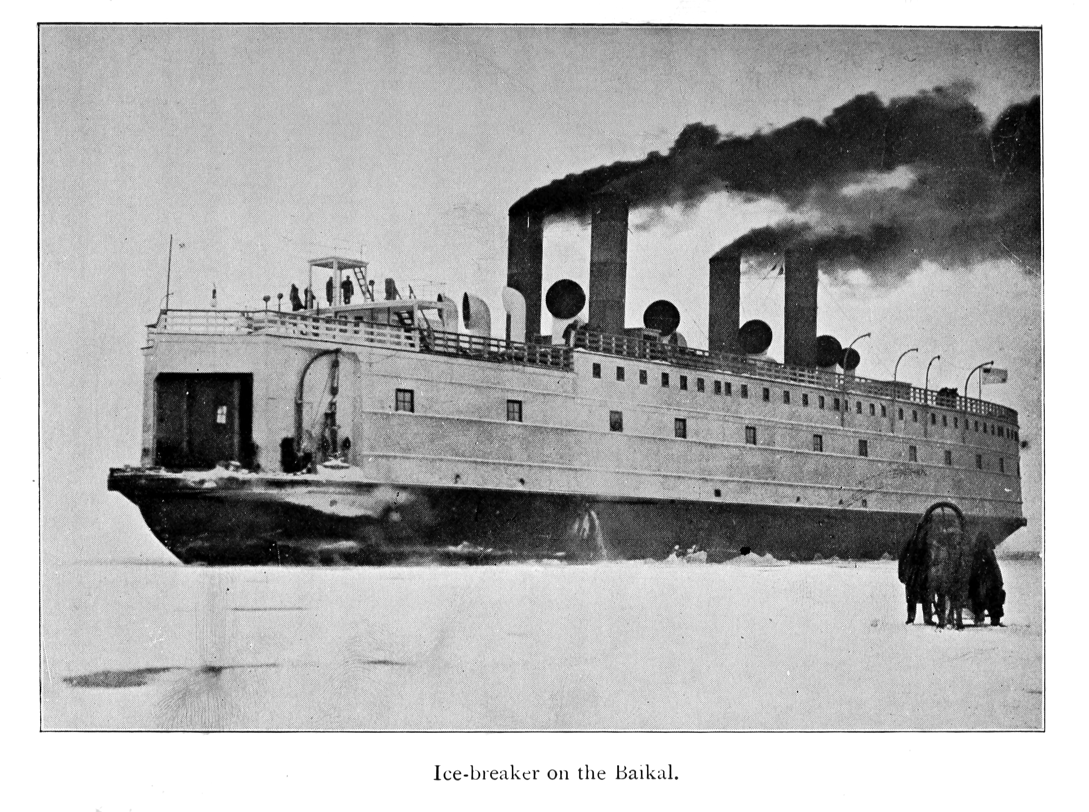 Icebreaker ferry "Baikal", Lake Baikal, 1911